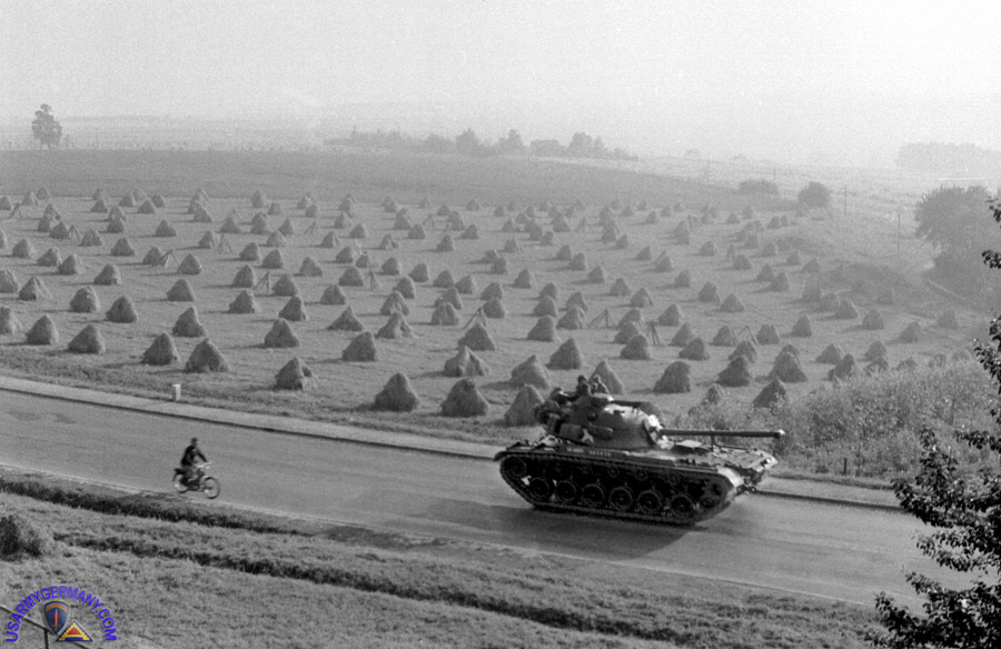 US Army M48A1 tank is leaving a military facility in Ulm (Germany)